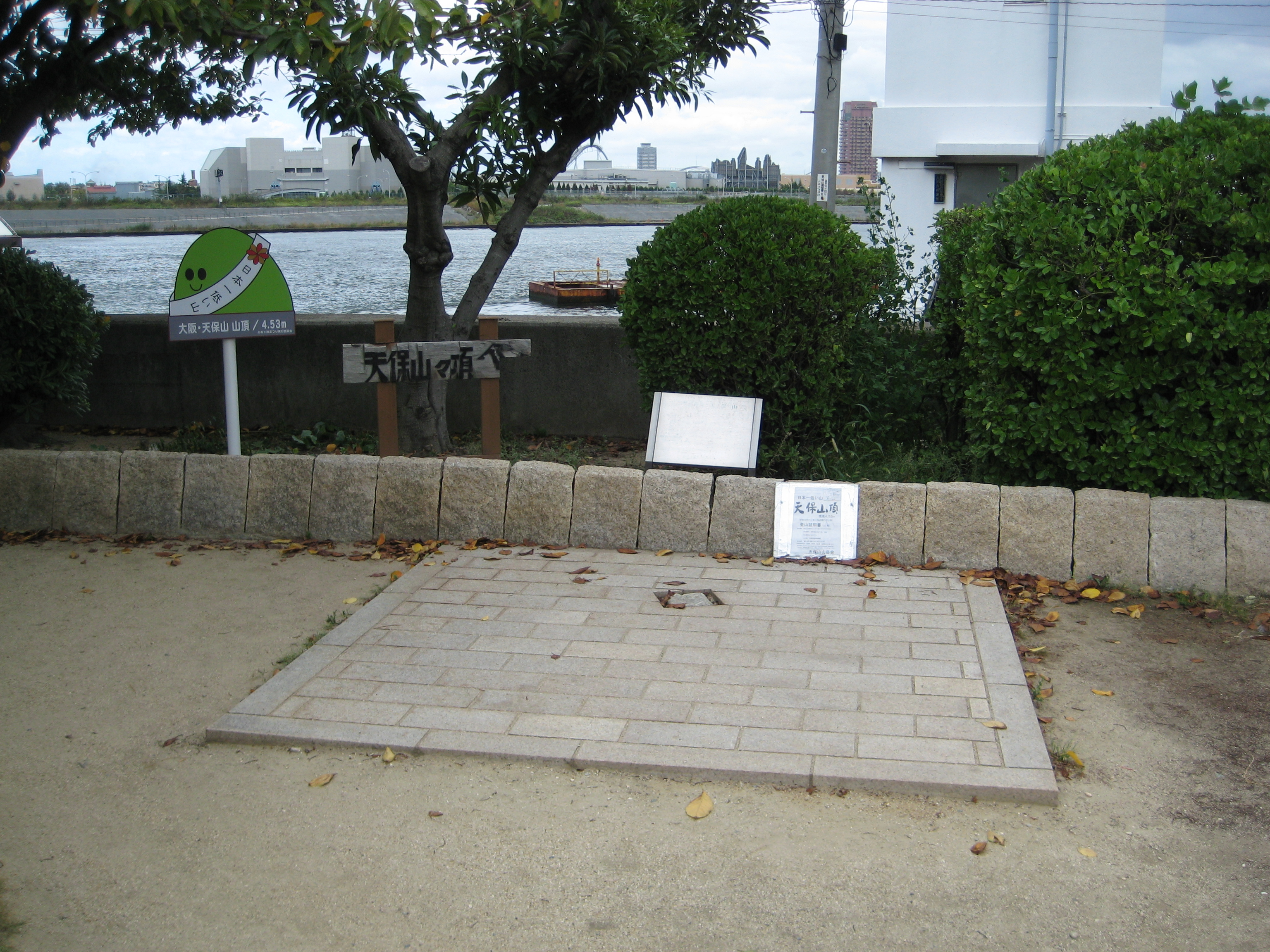 Mount Tempo(Mount Tenpō) Minato-ku Osaka-shi OSAKA,JAPAN Date:2010-09-25(JST)